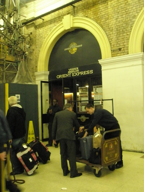 All part of the service Helpful staff with satisfied customers disembarking from the Orient Express at London Victoria.